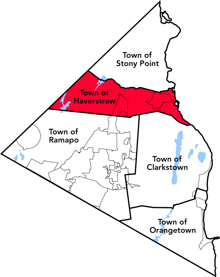 I made this file. :: Salvo (talk) 08:51, 20 February 2006 (UTC)